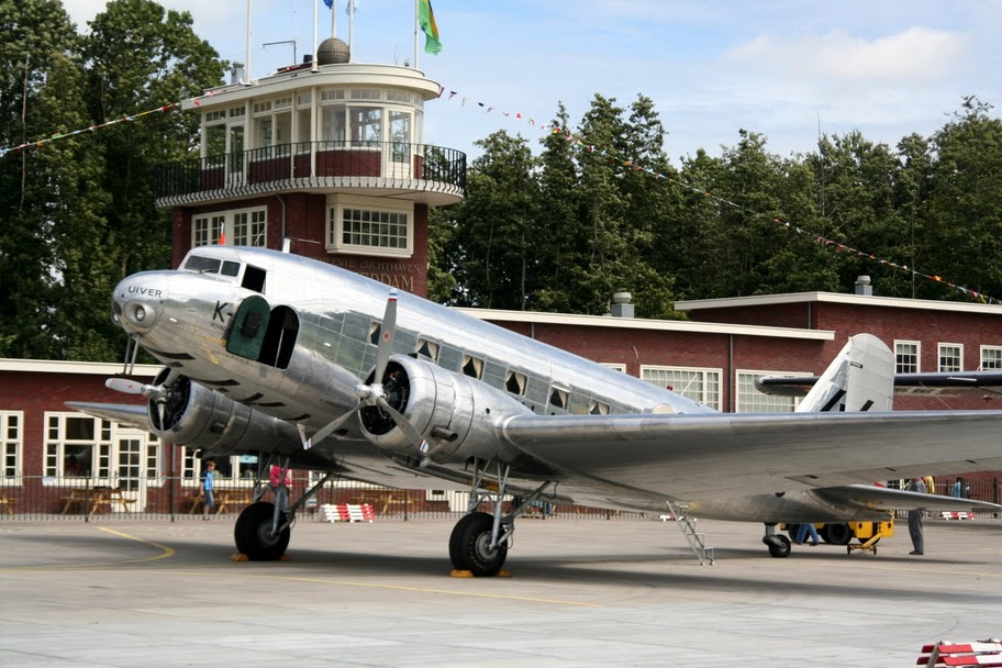 Douglas DC-2